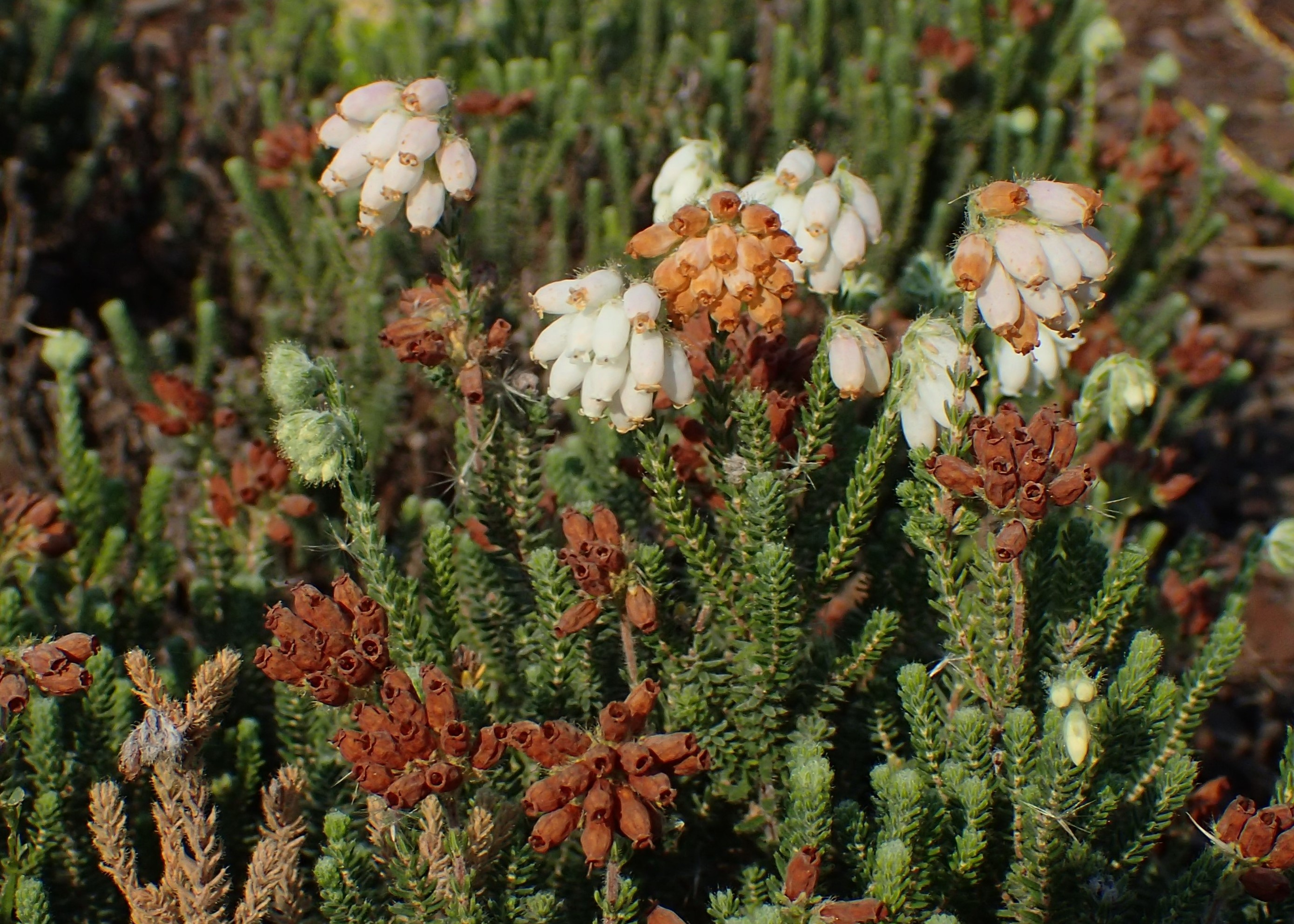 Erica tetralix 'Alba' in botanical garden in Kielce